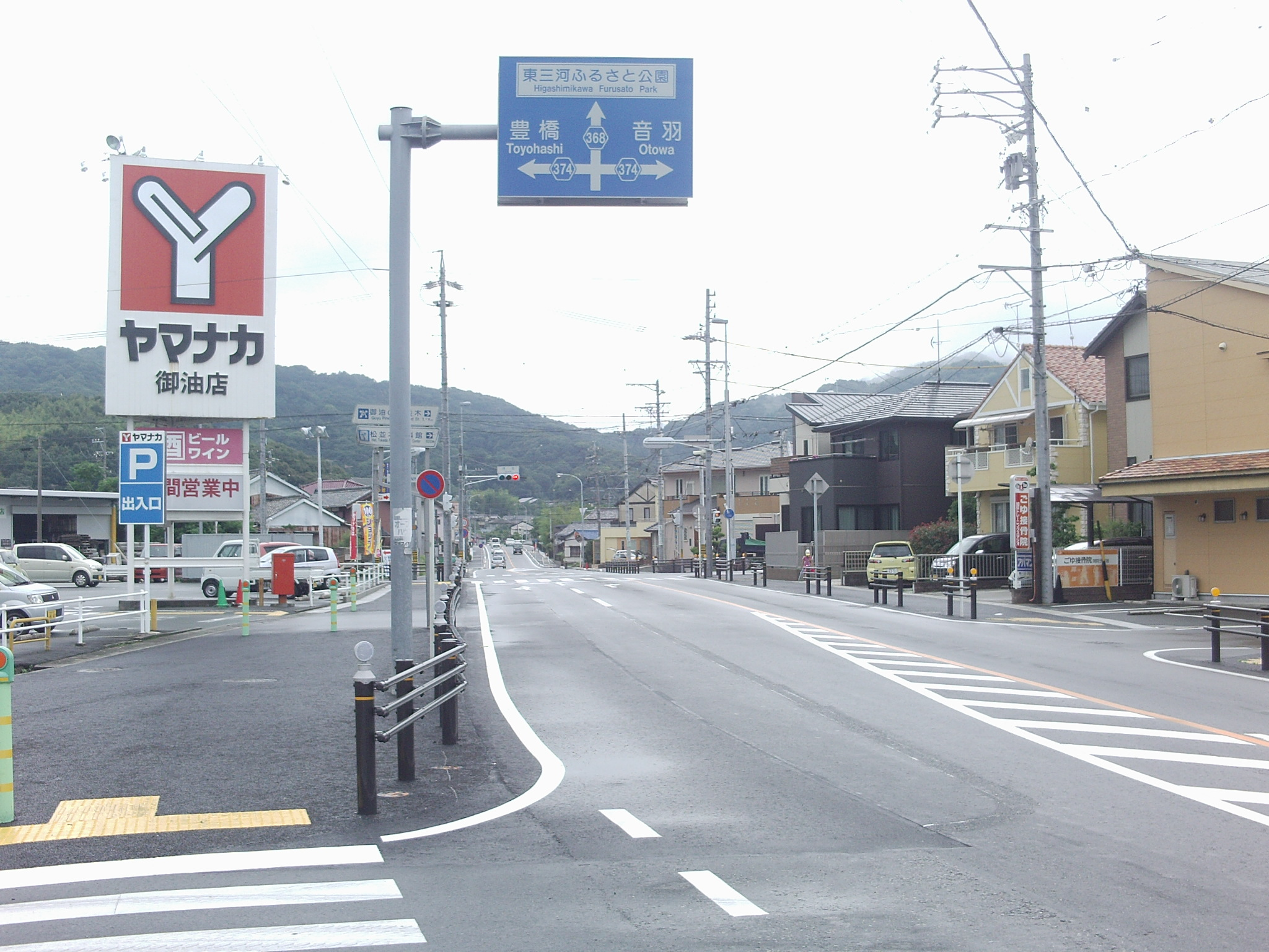 Aichi prefectural road No.368 in Goyucho, Toyokawa, Aichi.